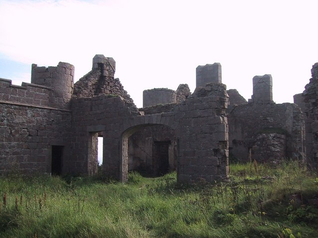 The Ruins of Slaines Castle